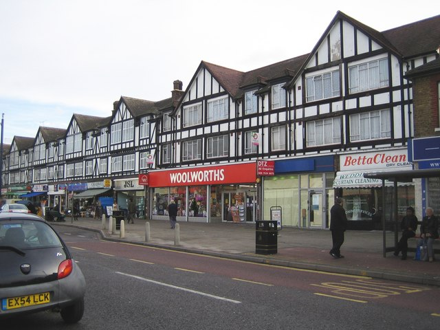 Chadwell Heath: Tudor Parade During the 1930s the idea of constructing homes and shops in a half-timbered Tudor style was much in vogue. Here's a classic example of a line of shops in that style, Tudor Parade on the south side of the High Road in Chadwell Heath, built c 1938. Woolworths is prominent and the Post Office can just be seen at the far left end.